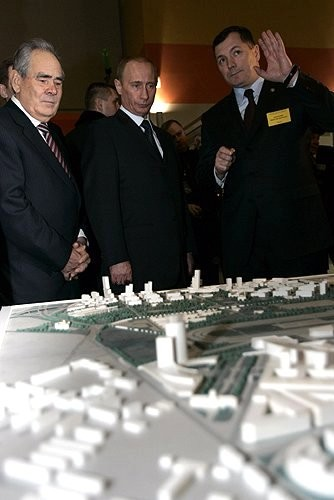 Marat Khusnullin with Vladimir Putin and Mintimer Shaimiev